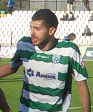 French footballer Mehdi Bourabia